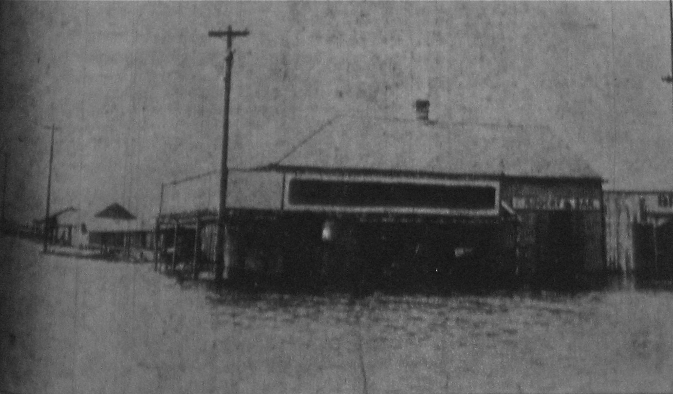 New Orleans: flooding from the September 1909 hurricane. "On the road to Bucktown, West End, showing Bruning Grocery. Water 4 feet deep."